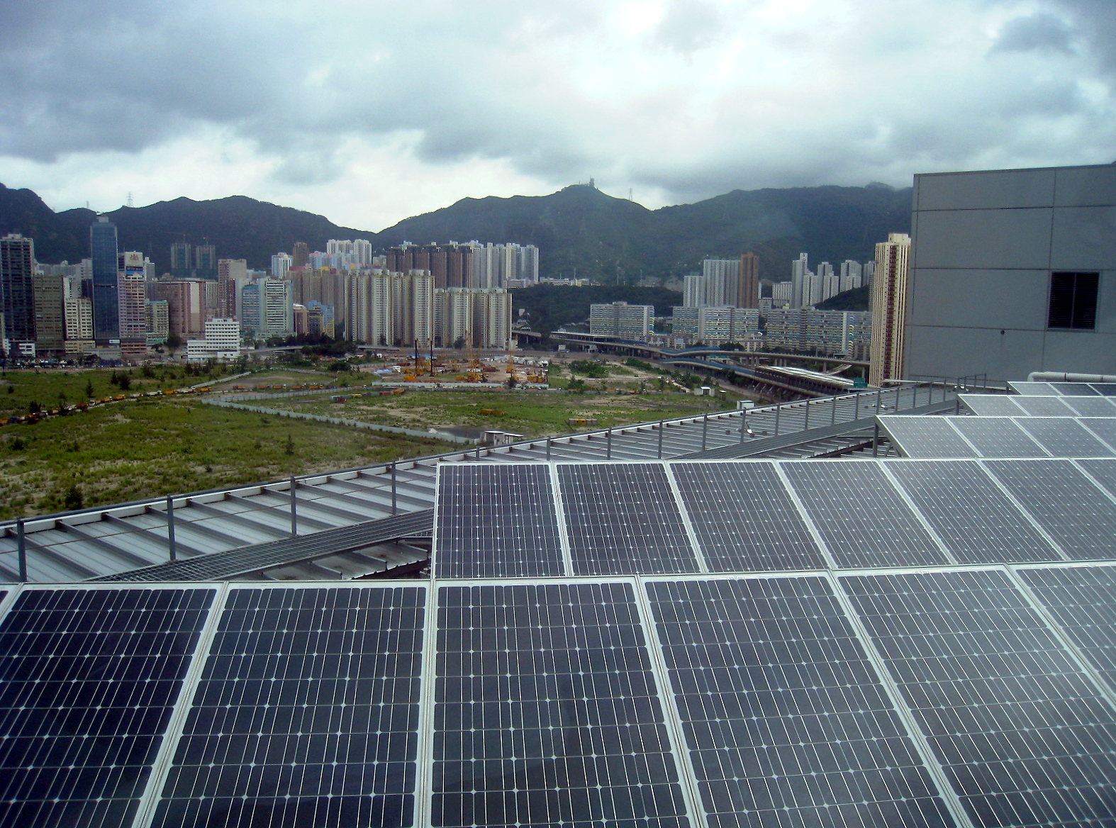 Electrical and Mechanical Services Department Headquarters